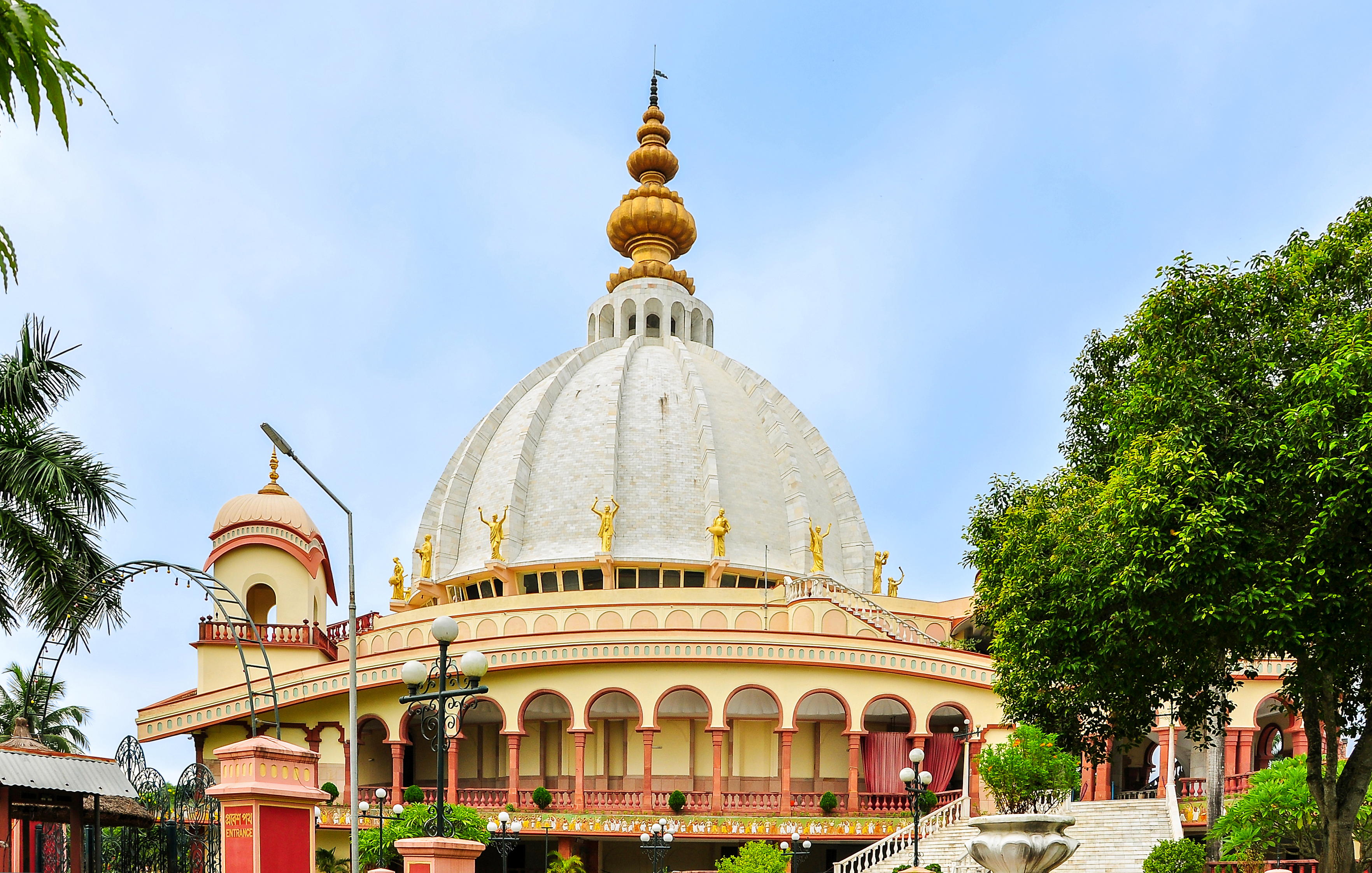 Samadhi Mandir of Srila Prabhupada (front side) at ISKCON, Mayapur, West Bengal, India.